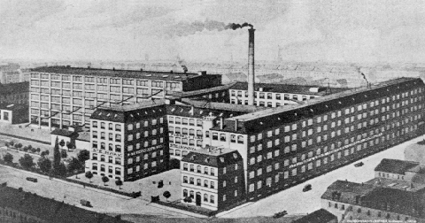 The Steinway & Sons piano factory on Schanzenstraße in Hamburg, Germany.